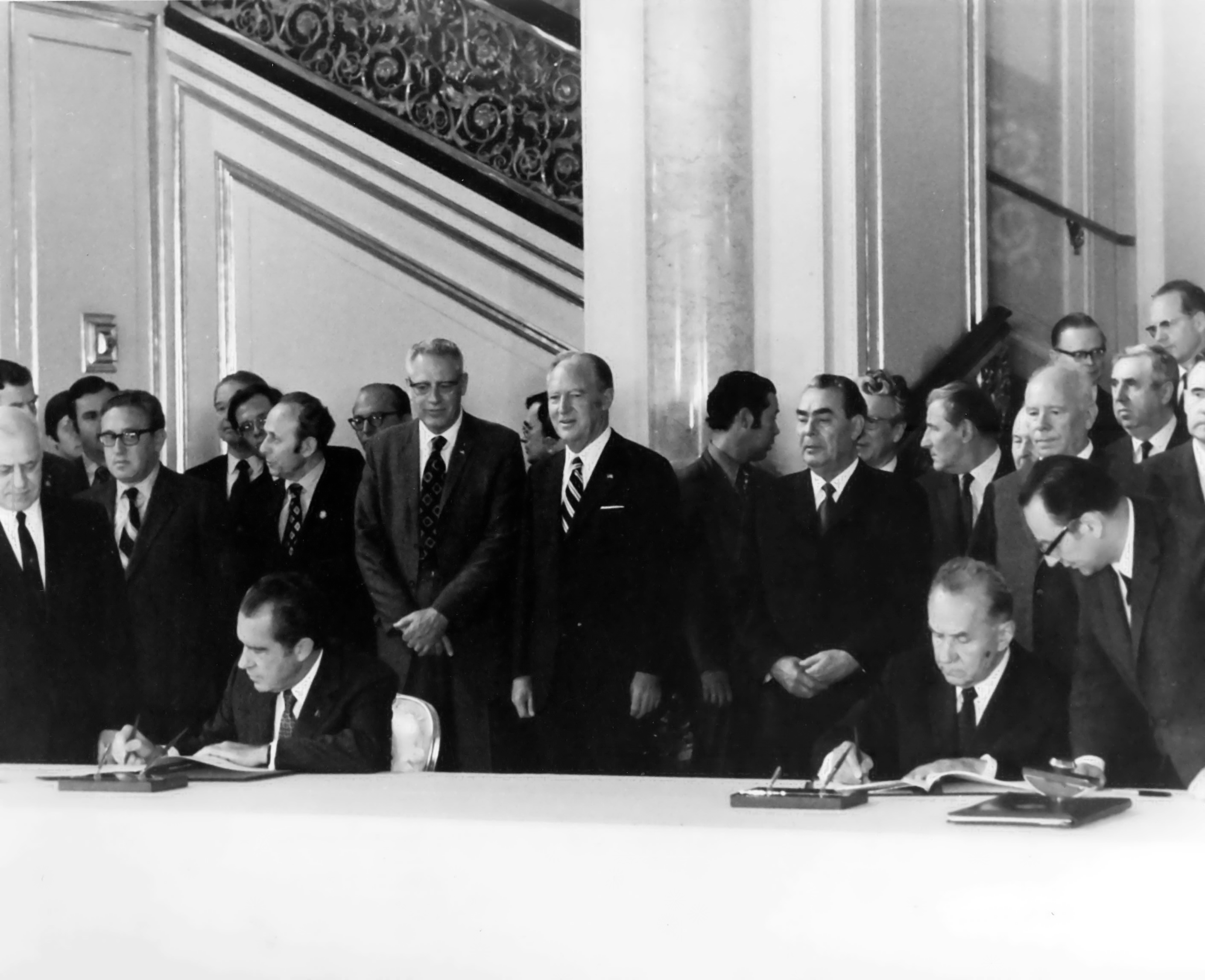 President Richard Nixon (seated at left) and Premier Alexei Kosygin sign the Agreement between the Government of the United States of America and the Government of the Union of Soviet Socialist Republics on Cooperation in the Fields of Science and Technology; which included the agreement governing the Apollo–Soyuz Test Project. The agreement was signed during the bilateral summit in Moscow, May 24, 1972.